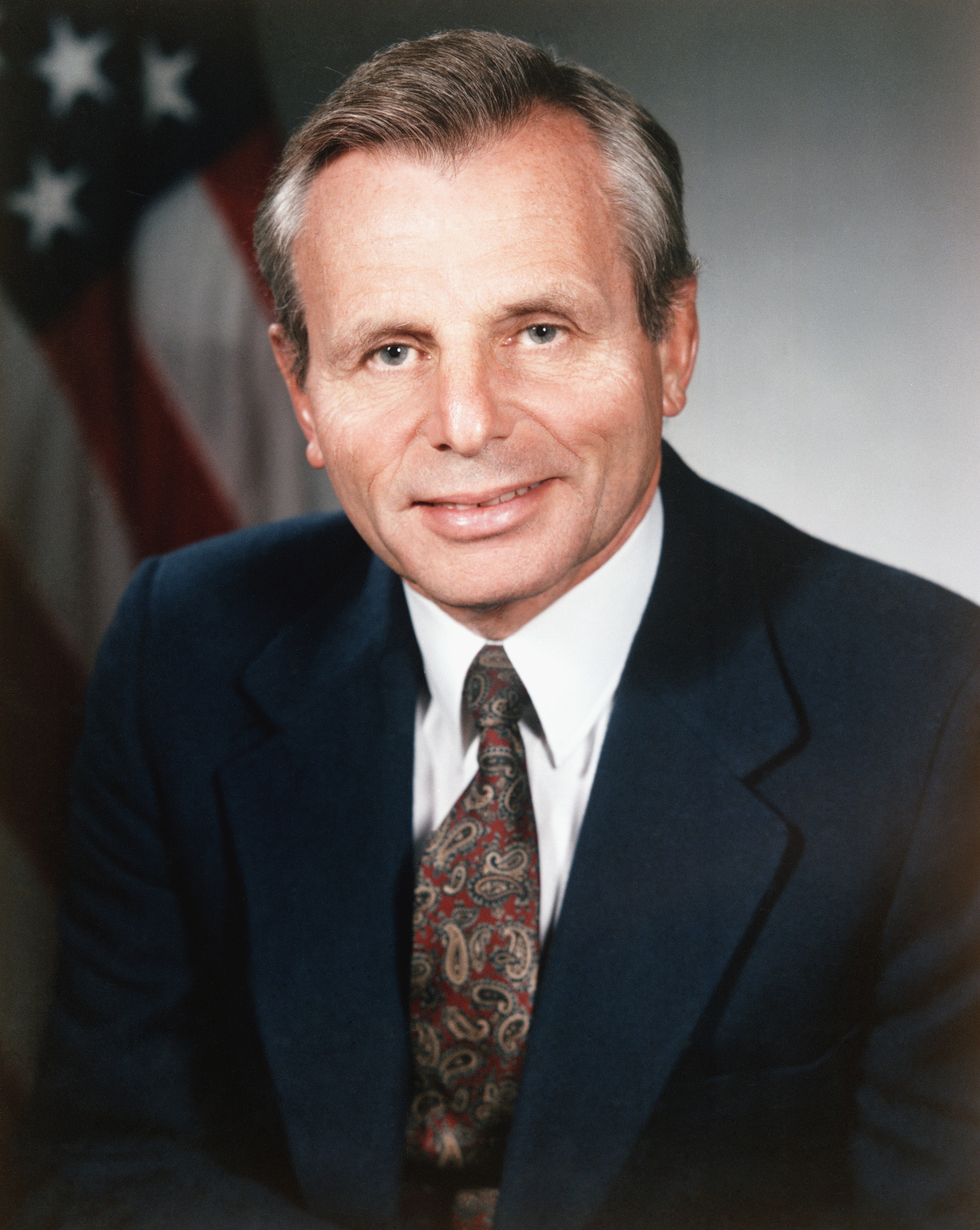 Official Portrait of Secretary of Defense Frank Carlucci